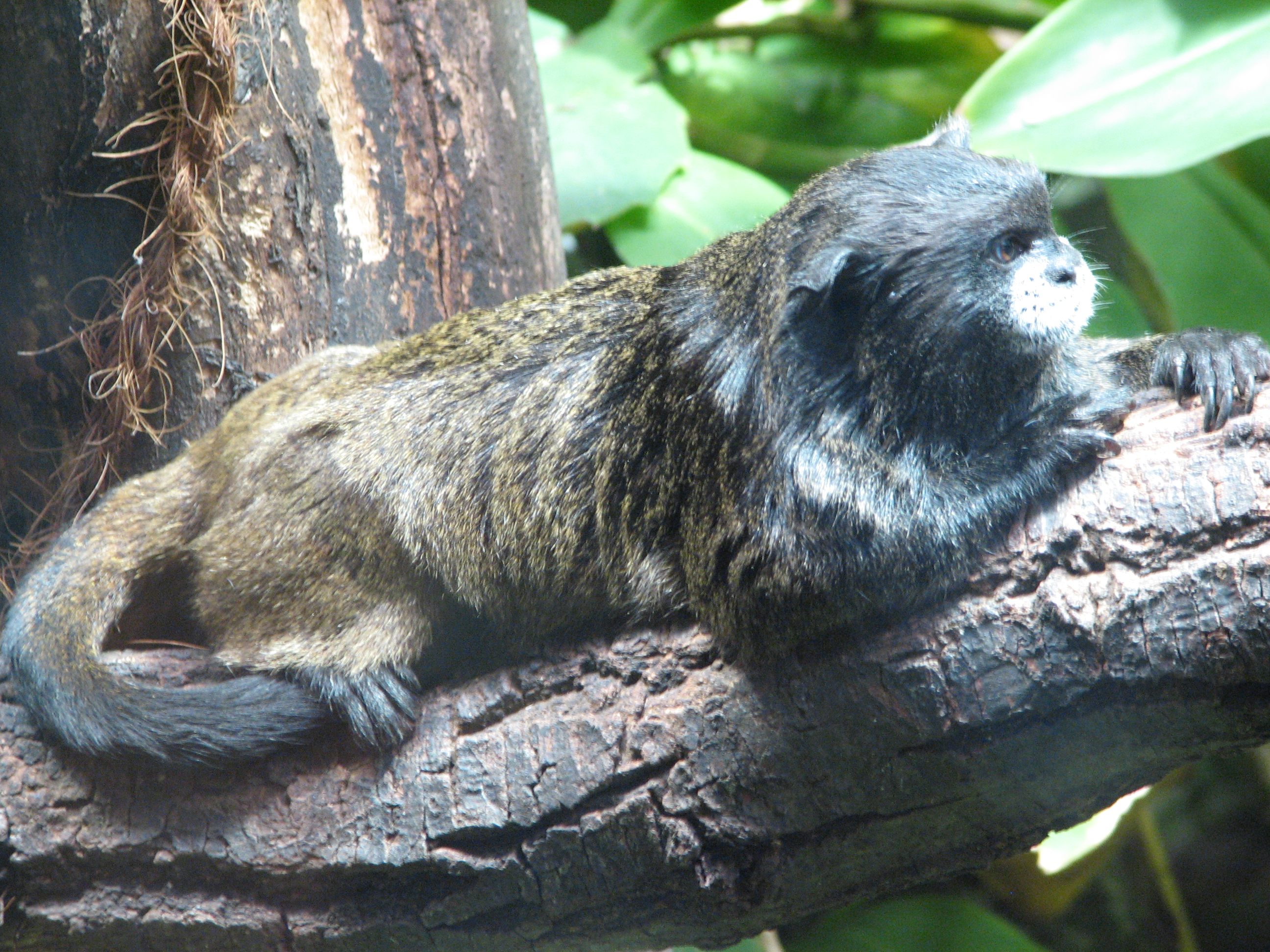 Black-mantled Tamarin (Saguinus nigricollis) in ZOO Jihlava, Czech Republic